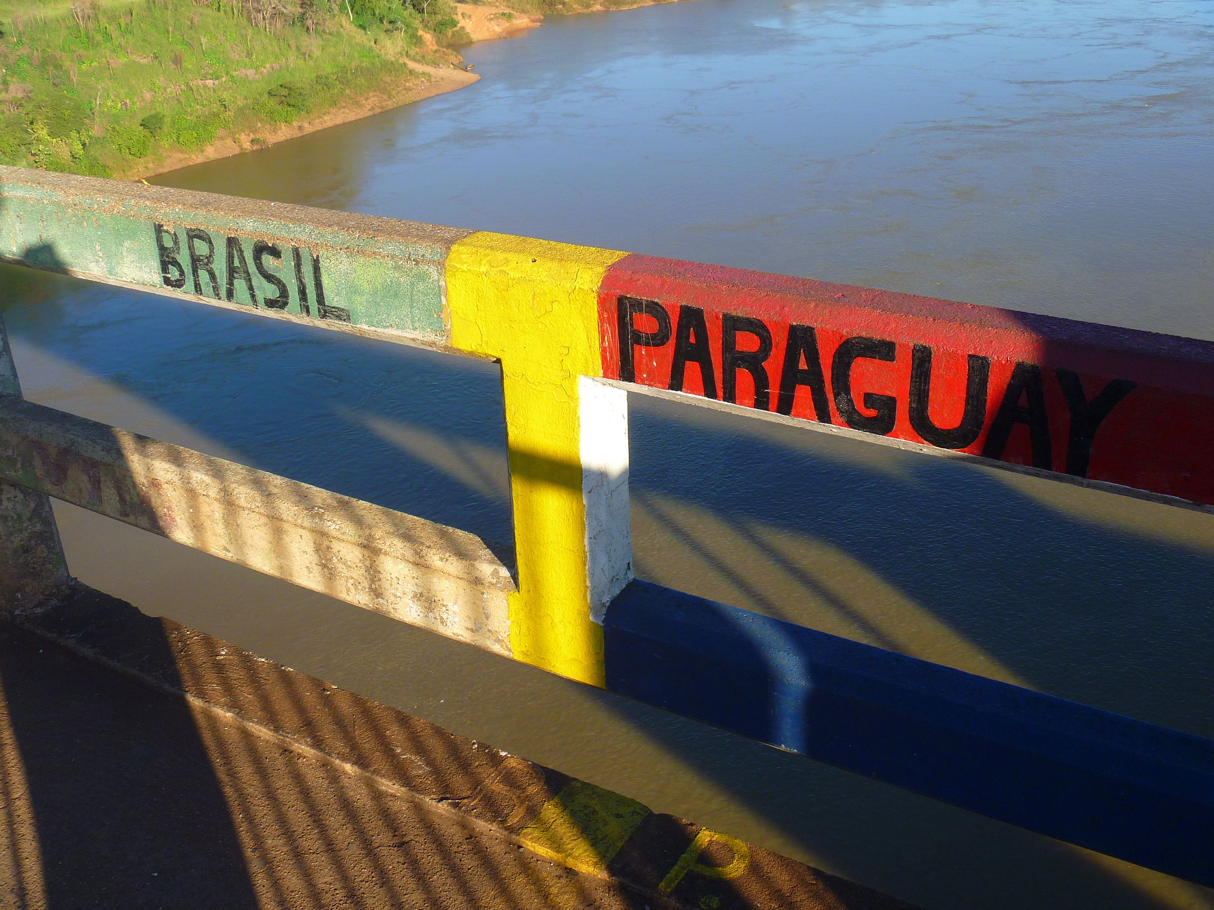 Border of Brasil and Paraguay near Ciudad del Este